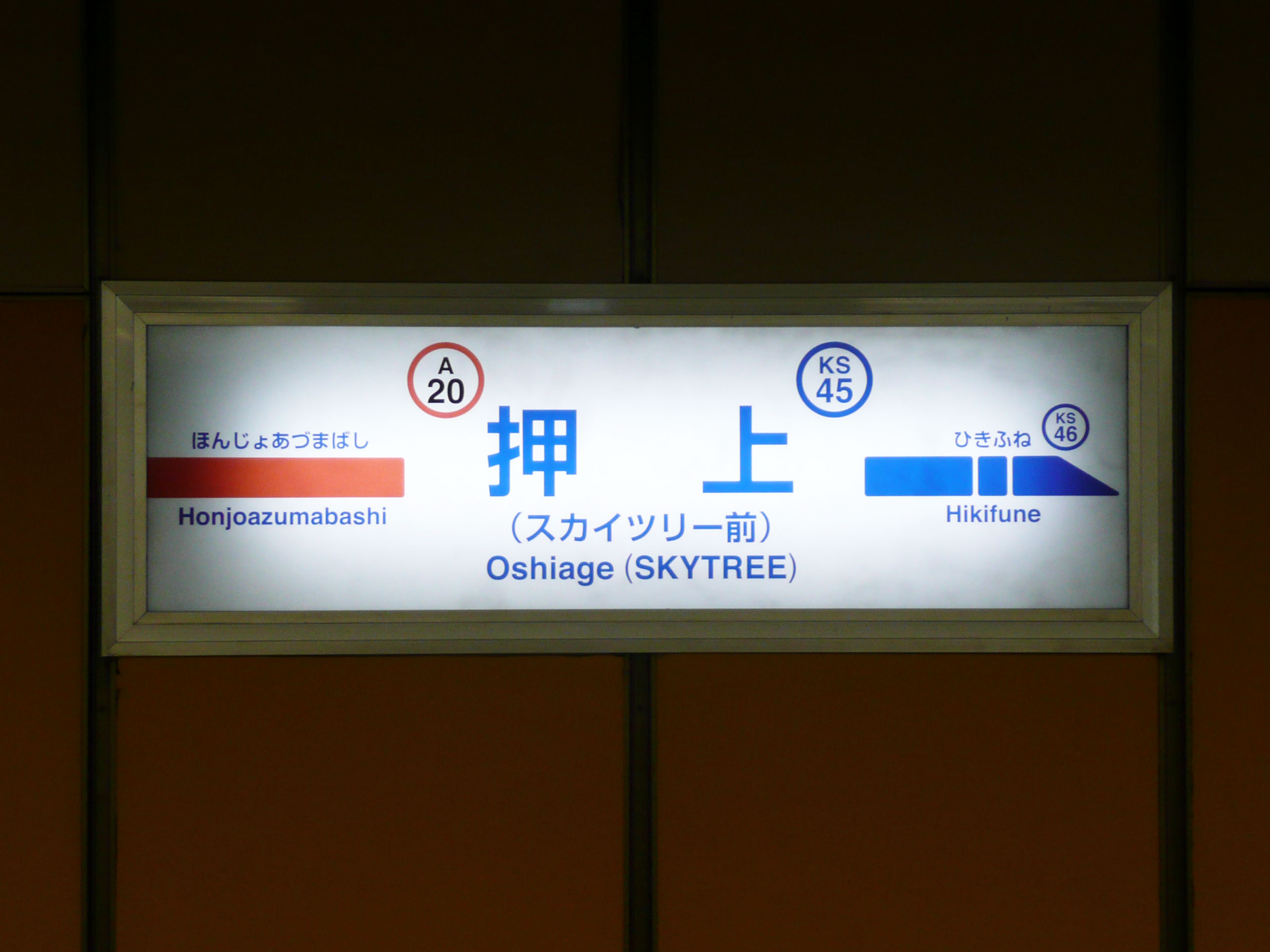 Station Signboard of Oshiage Station (Keisei Oshiage Line and Toei Asakusa Line)